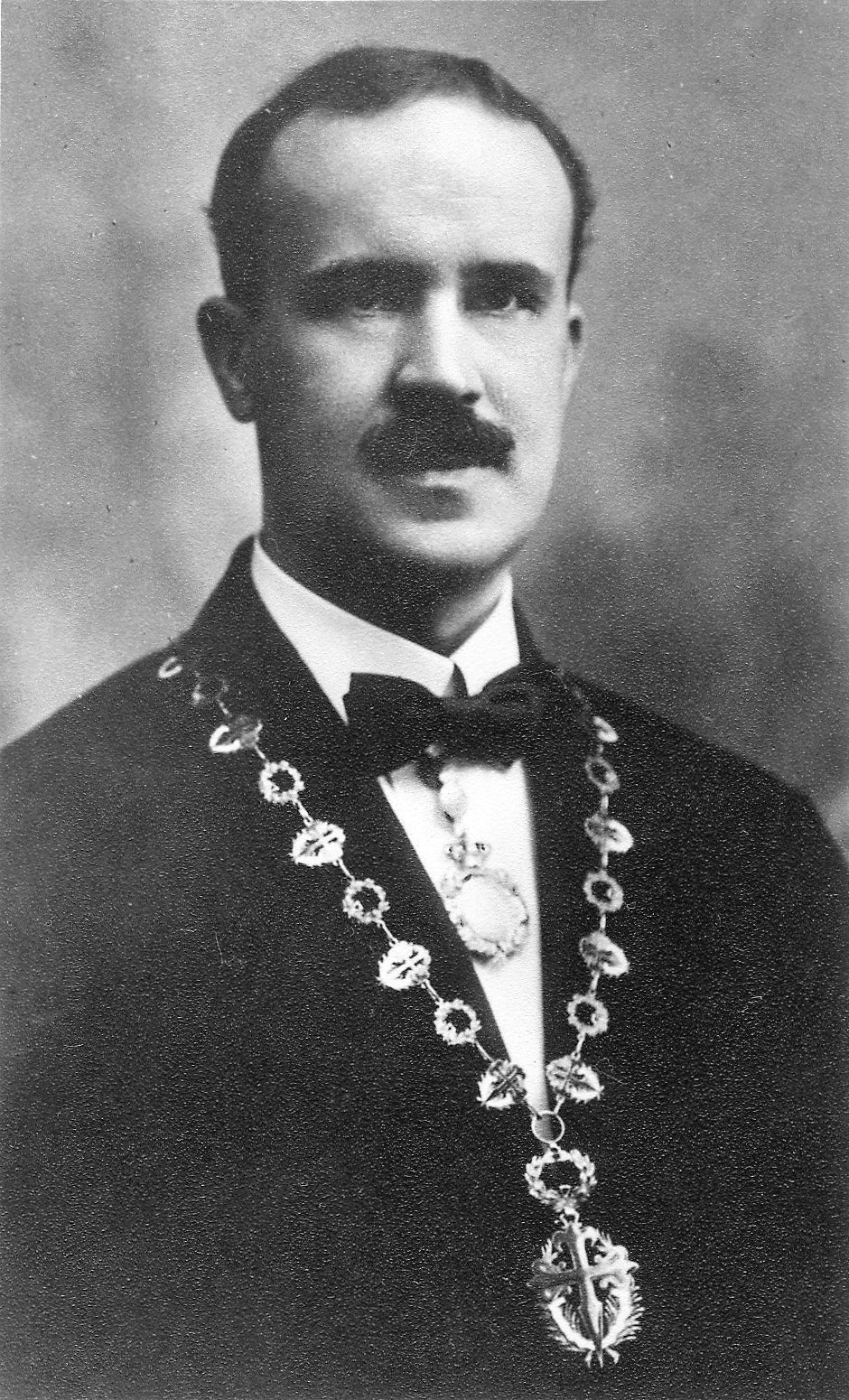 A portrait of professor Eugeniusz Frankowski (Polish ethnologist/anthropologist). Picture taken in Madrid, Spain on 1 of September 1920. This paper copy comes from the archive of the State Ethnographic Museum in Warsaw.